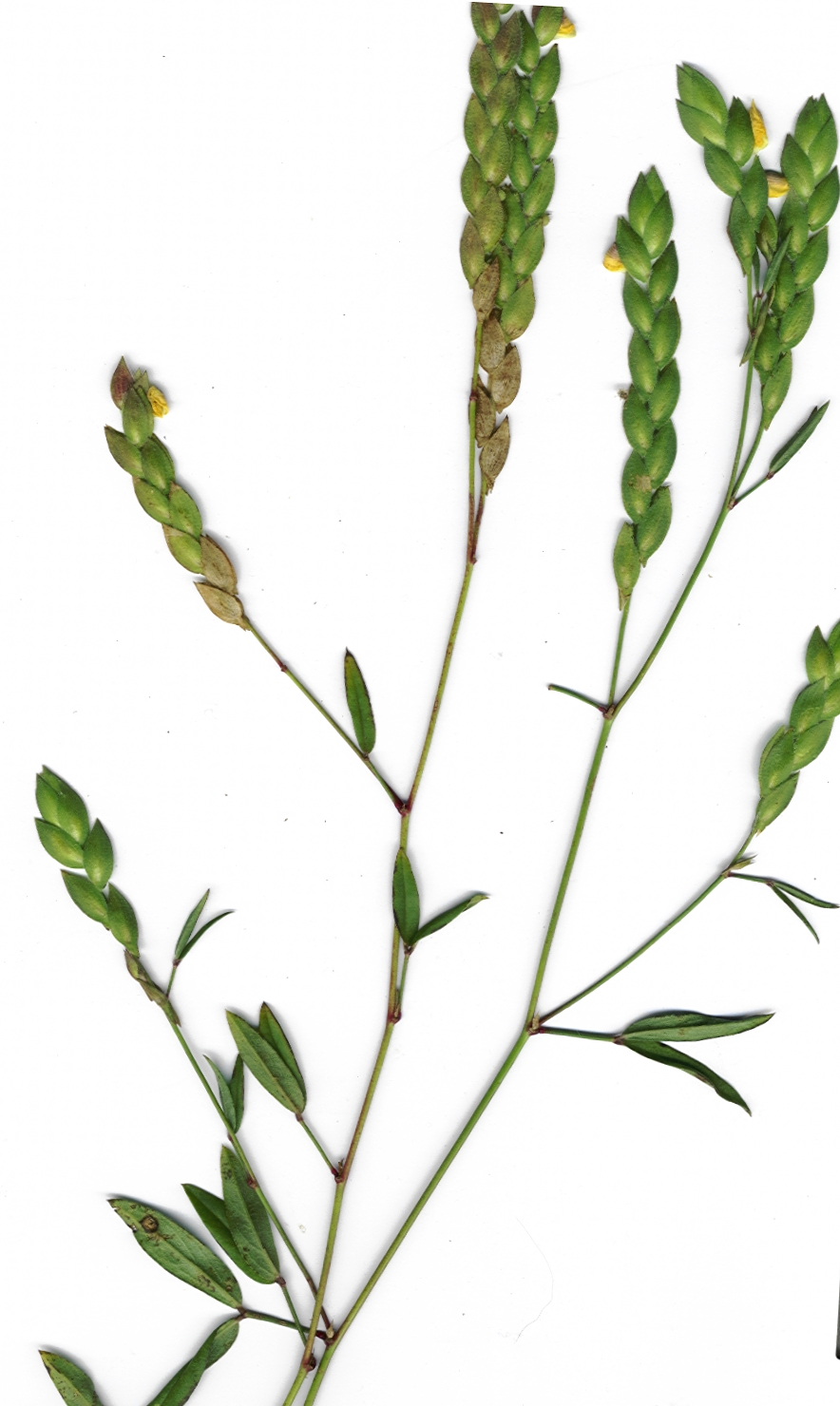 Zornia reticulata (branch). Location: Maui, Haiku